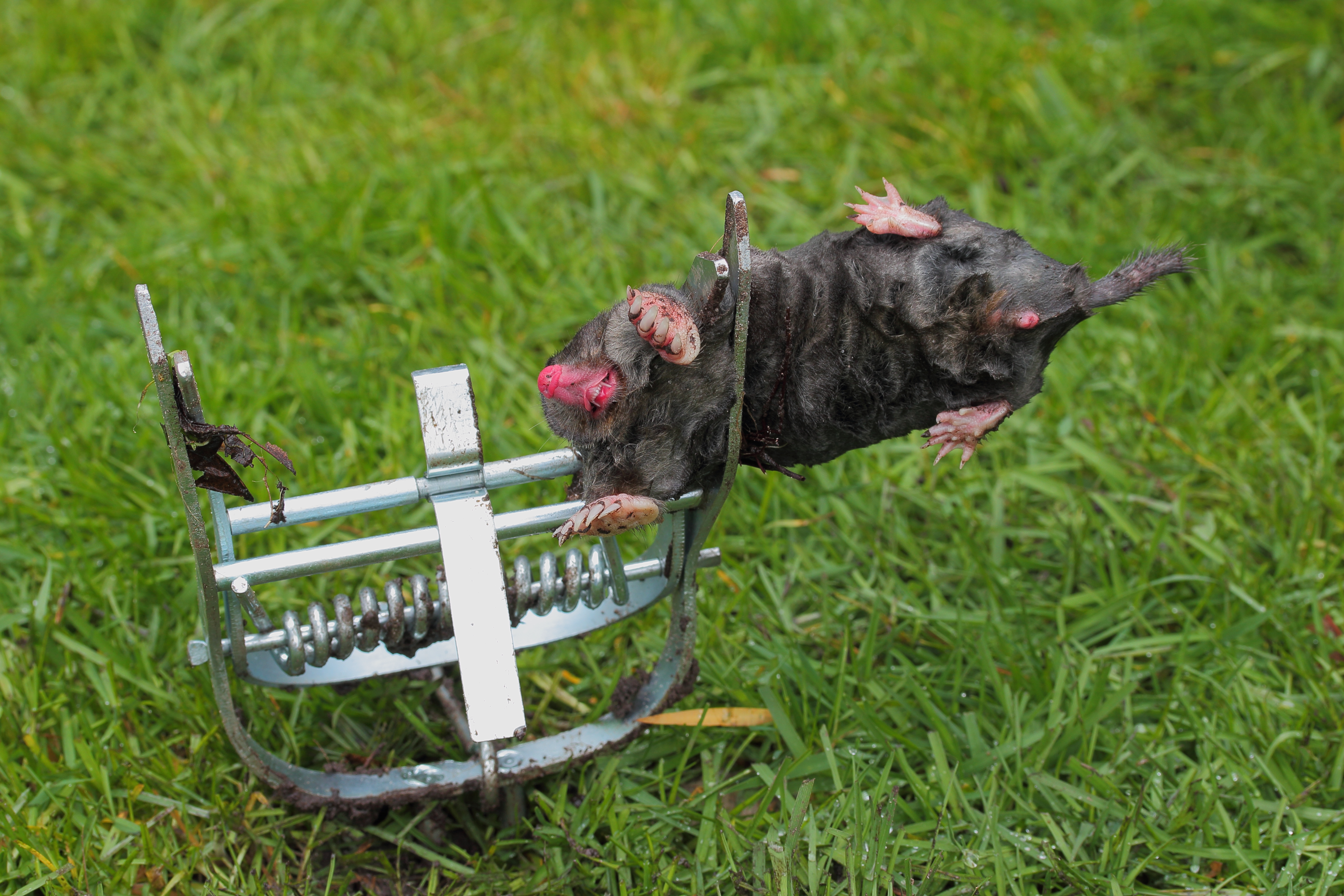 In a well-placed clip is a mole (Talpa europaea) died instantly.